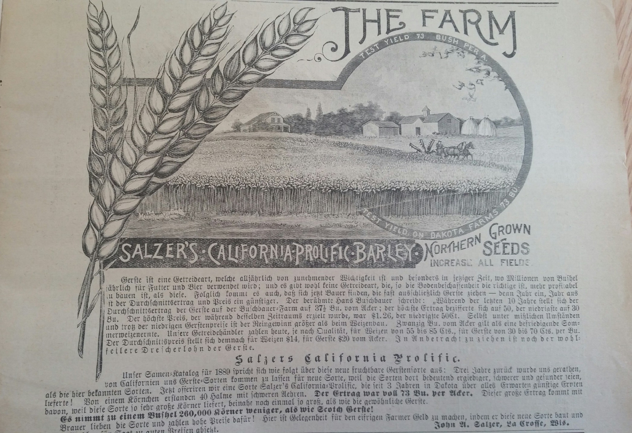 The Acker- and Gartenbau Zeitung was a Milwaukee-based magazine for German speaking farmers in the US. The articles, as seen above, sometimes had their headings in English and content in German. Image provided courtesy of: The Max Kade Institute for German-American Studies at the University of Wisconsin-Madison.